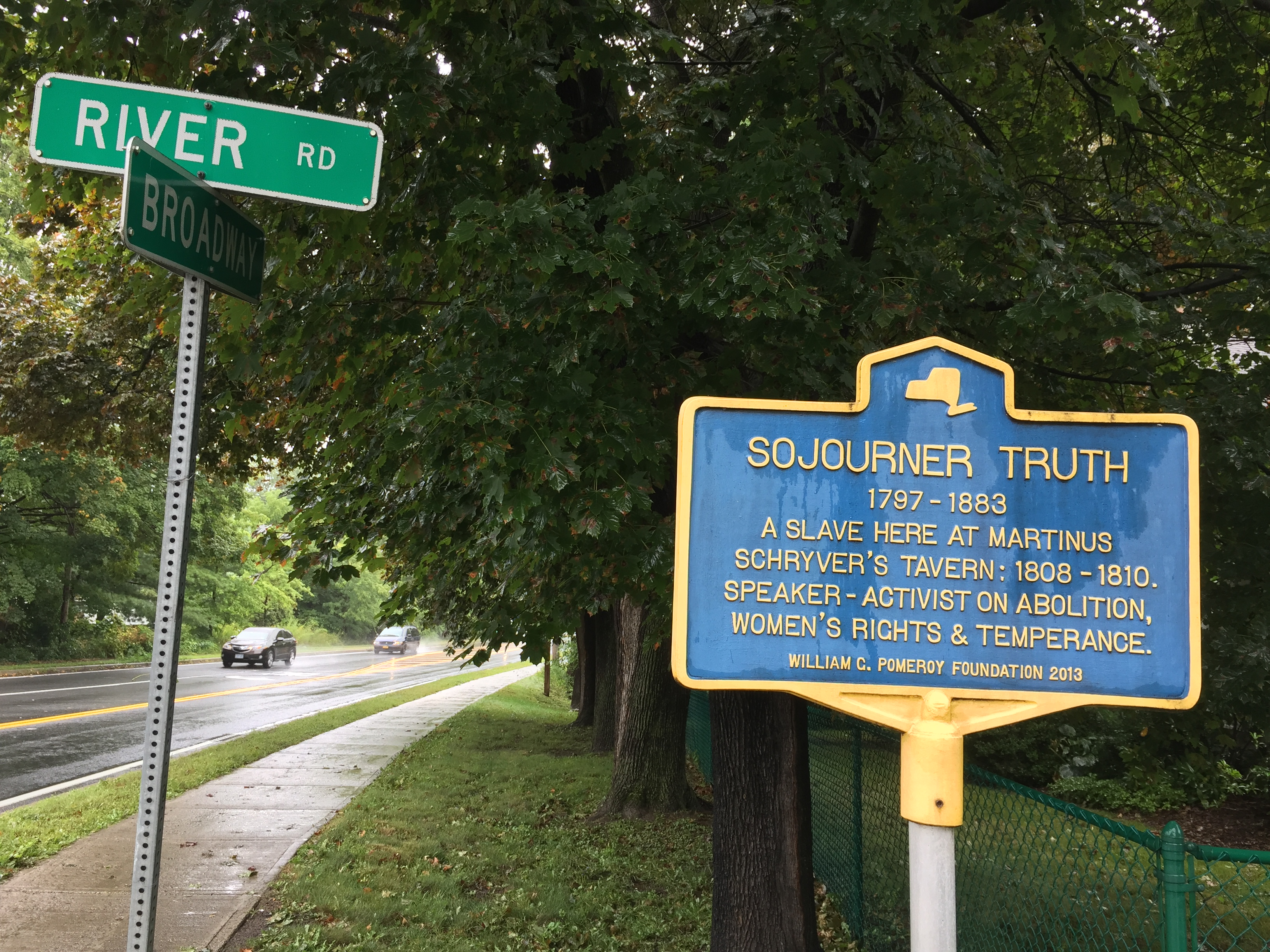 New York State historical marker for where Sojourner Truth was enslaved